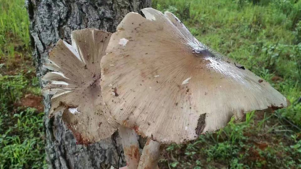 Macrolepiota albuminosa in Shilin County, Yunnan